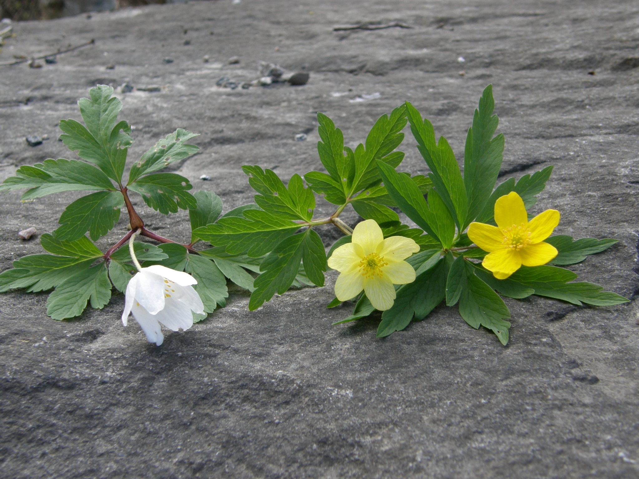 Anemone ×lipsiensis with its parents. Taken in Norway, Stange, Rotlia